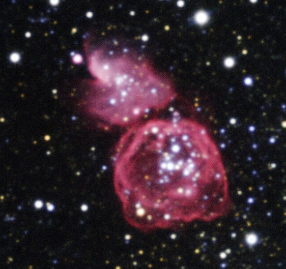 Astronomers obtained this portrait of Barnard’s Galaxy using the Wide Field Imager attached to the 2.2-metre MPG/ESO telescope at ESO’s La Silla Observatory in northern Chile. Also known as NGC 6822, this dwarf irregular galaxy is one of the Milky Way’s galactic neighbours. The dwarf galaxy has no shortage of stellar splendour and pyrotechnics. Reddish nebulae in this image reveal regions of active star formation, wherein young, hot stars heat up nearby gas clouds. Also prominent in the upper left of this new image is a striking bubble-shaped nebula. At the nebula’s centre, a clutch of massive, scorching stars send waves of matter smashing into surrounding interstellar material, generating a glowing structure that appears ring-like from our perspective. Other similar ripples of heated matter thrown out by feisty young stars are dotted across Barnard’s Galaxy.